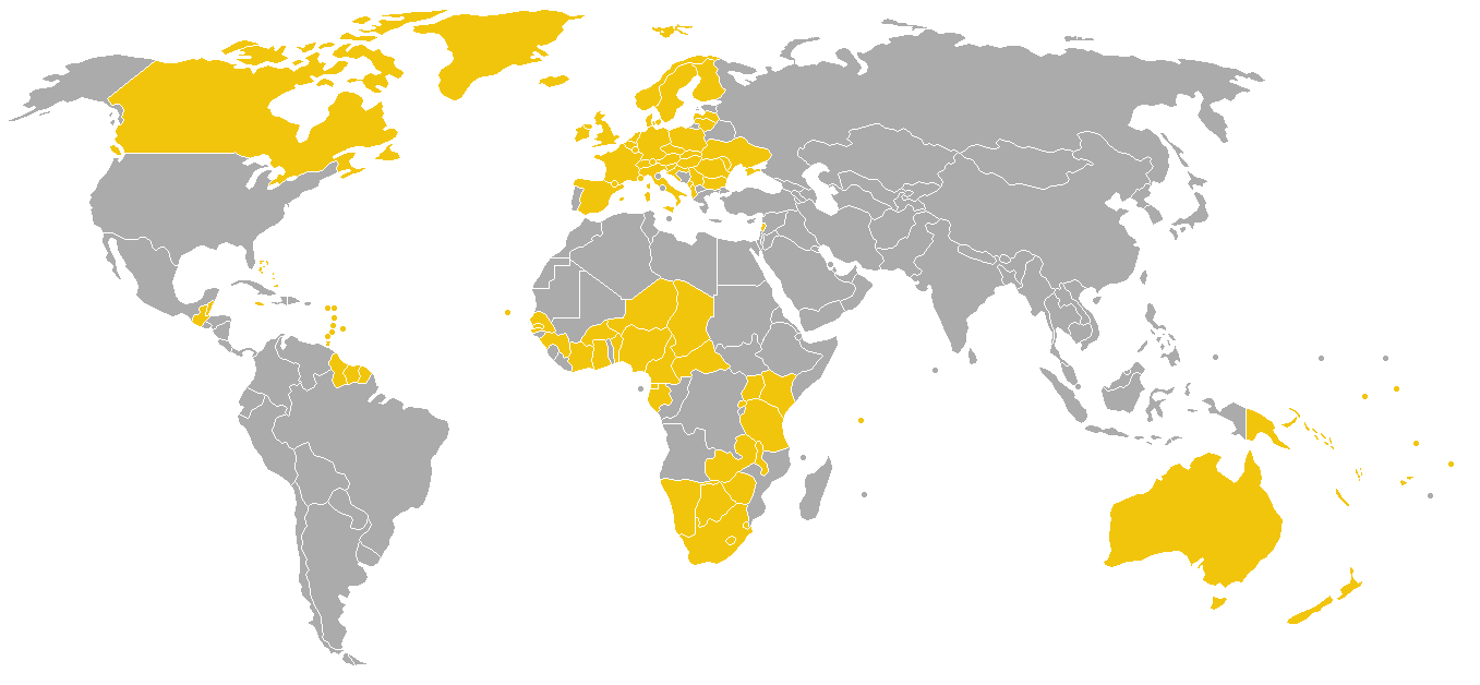 Countries which have Easter Monday as an official holiday, as listed on the wikipedia article Easter Monday. (Includes the US state of North Carolina) The Vatican City and San Marino are depicted wrongly on the map. Easter Monday is indeed a public holiday in the Vatican City and San Marino.